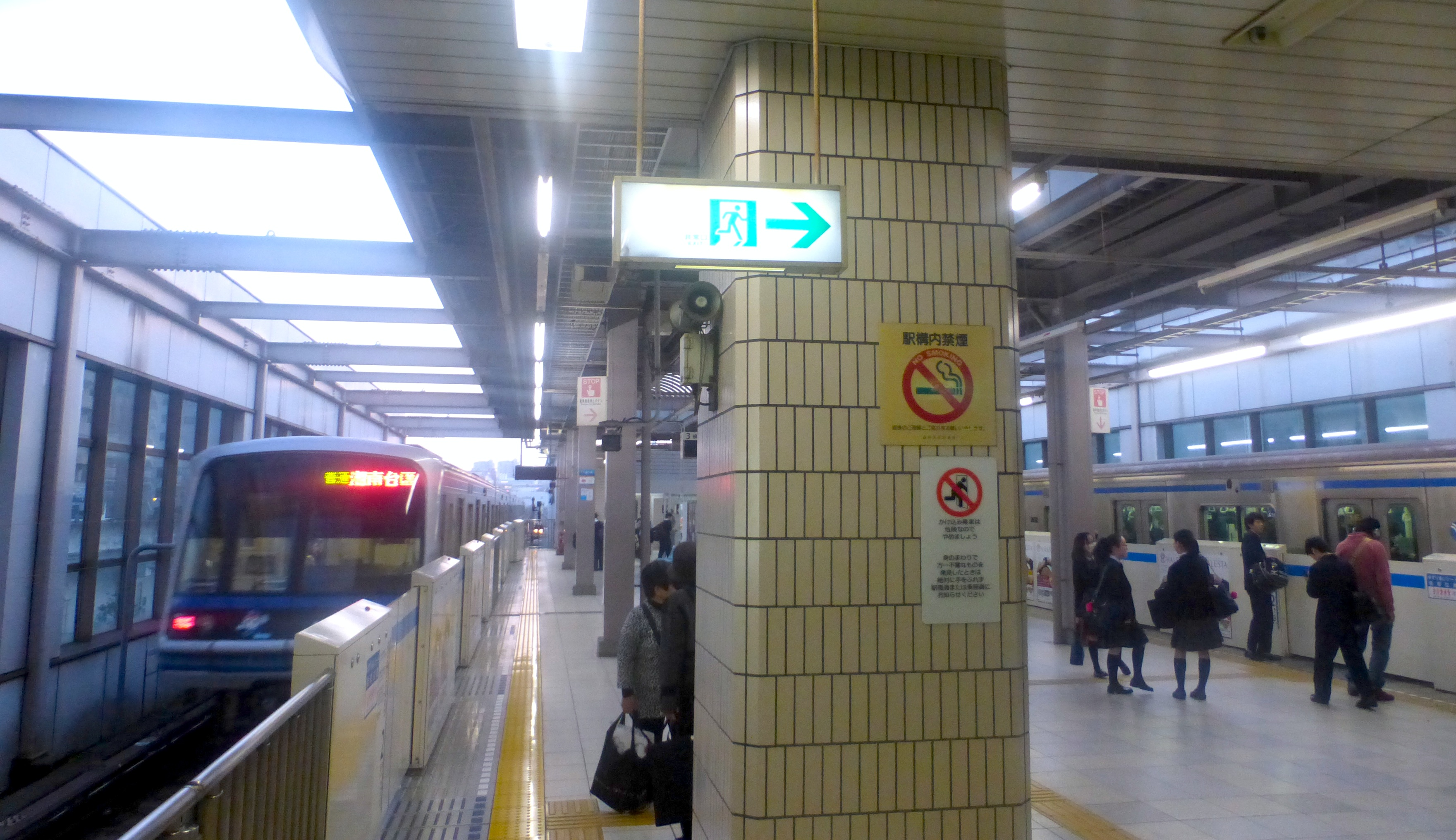 センター北駅のホームと電車 (Center-Kita Station platform and train)